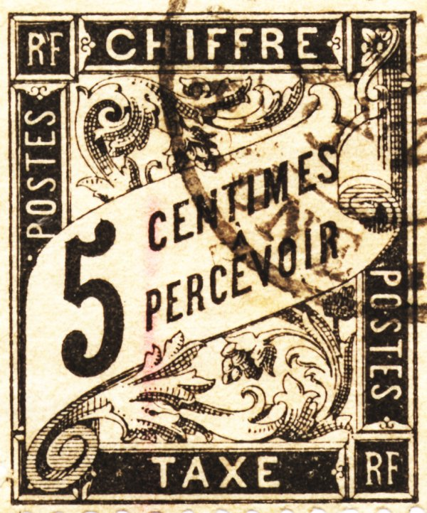 Postage-due stamp of France, 5 c., black